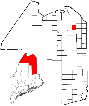 Adapted from U.S. Census Bureau maps (American FactFinder) and Wikipedia's ME county maps by Bumm13.